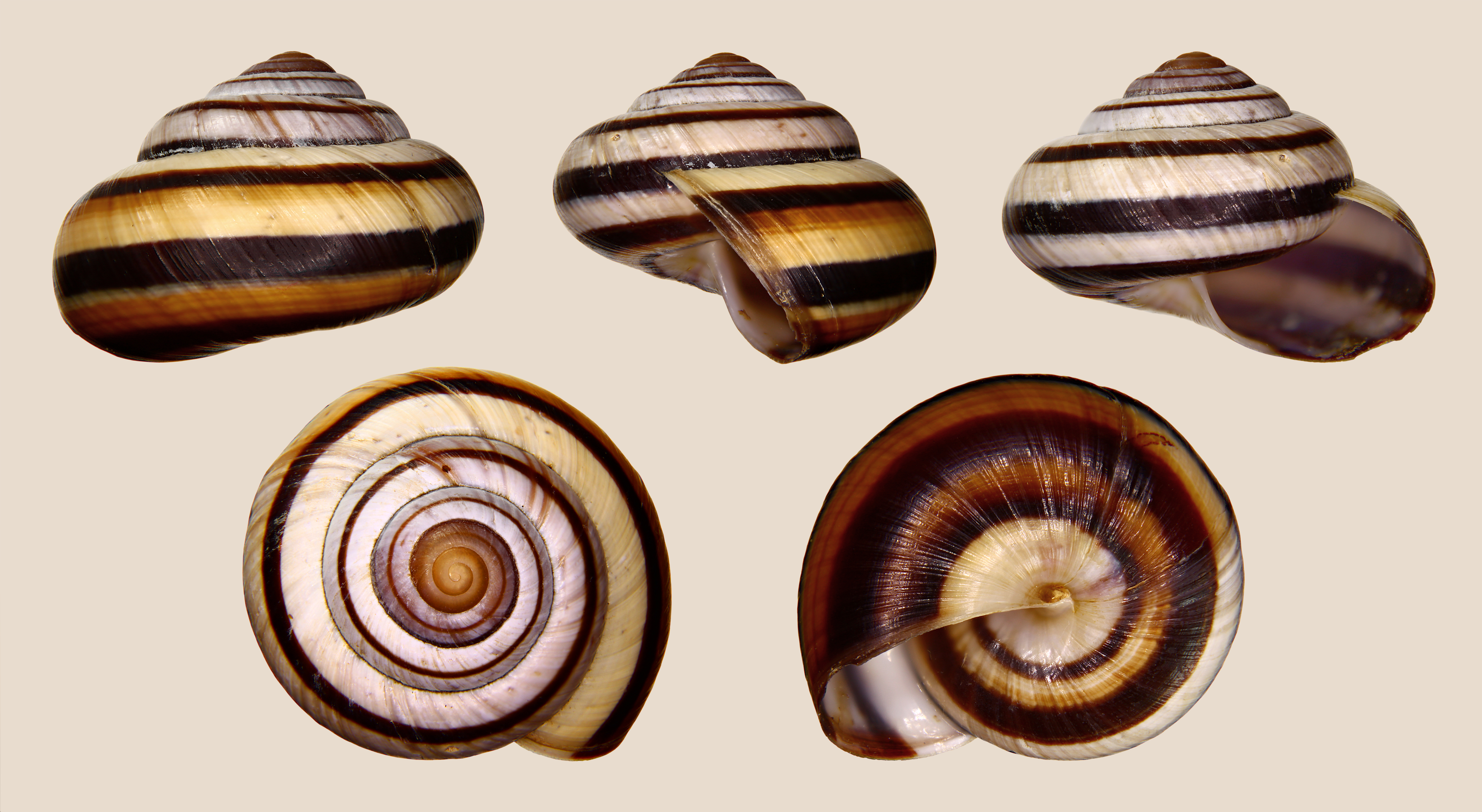 Asperitas inquinata penidae, Dyakiidae; Diameter 3.3 cm; Originating from Nusa Lembogan Island near Bali, Indonesia; Shell of own collection, therefore not geocoded.